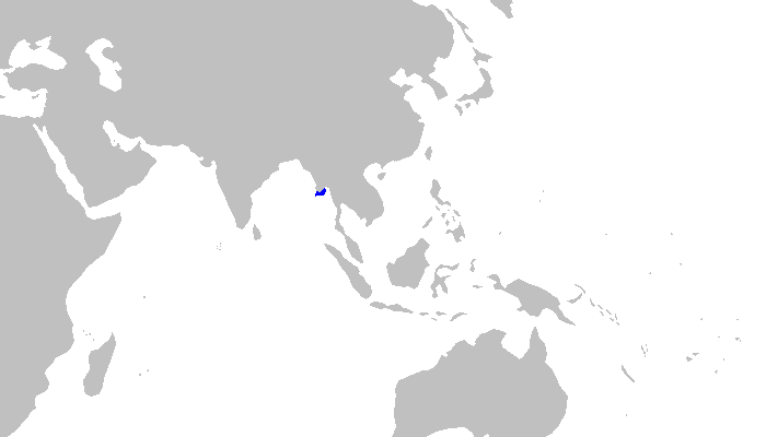 Distribution map for Glyphis siamensis